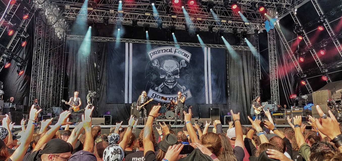 Primal Fear 2019-3